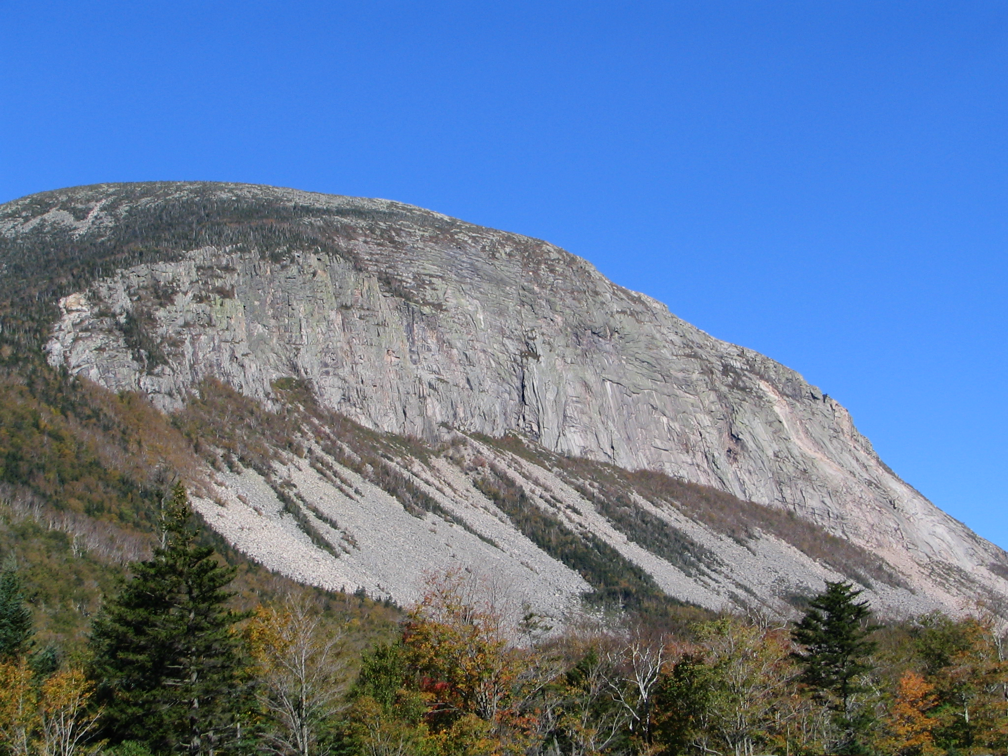 Author: Mike Spenard